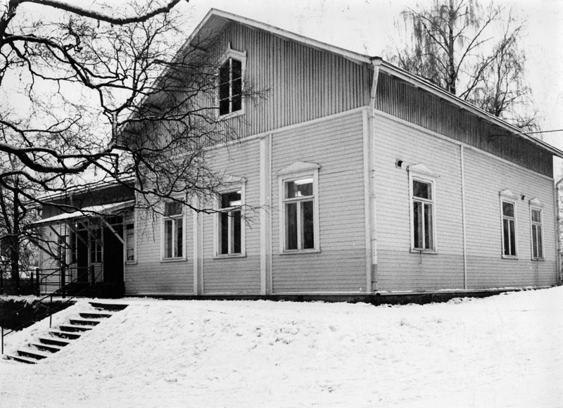 Mustolan vanhin koulurakennus valmistui v. 1896